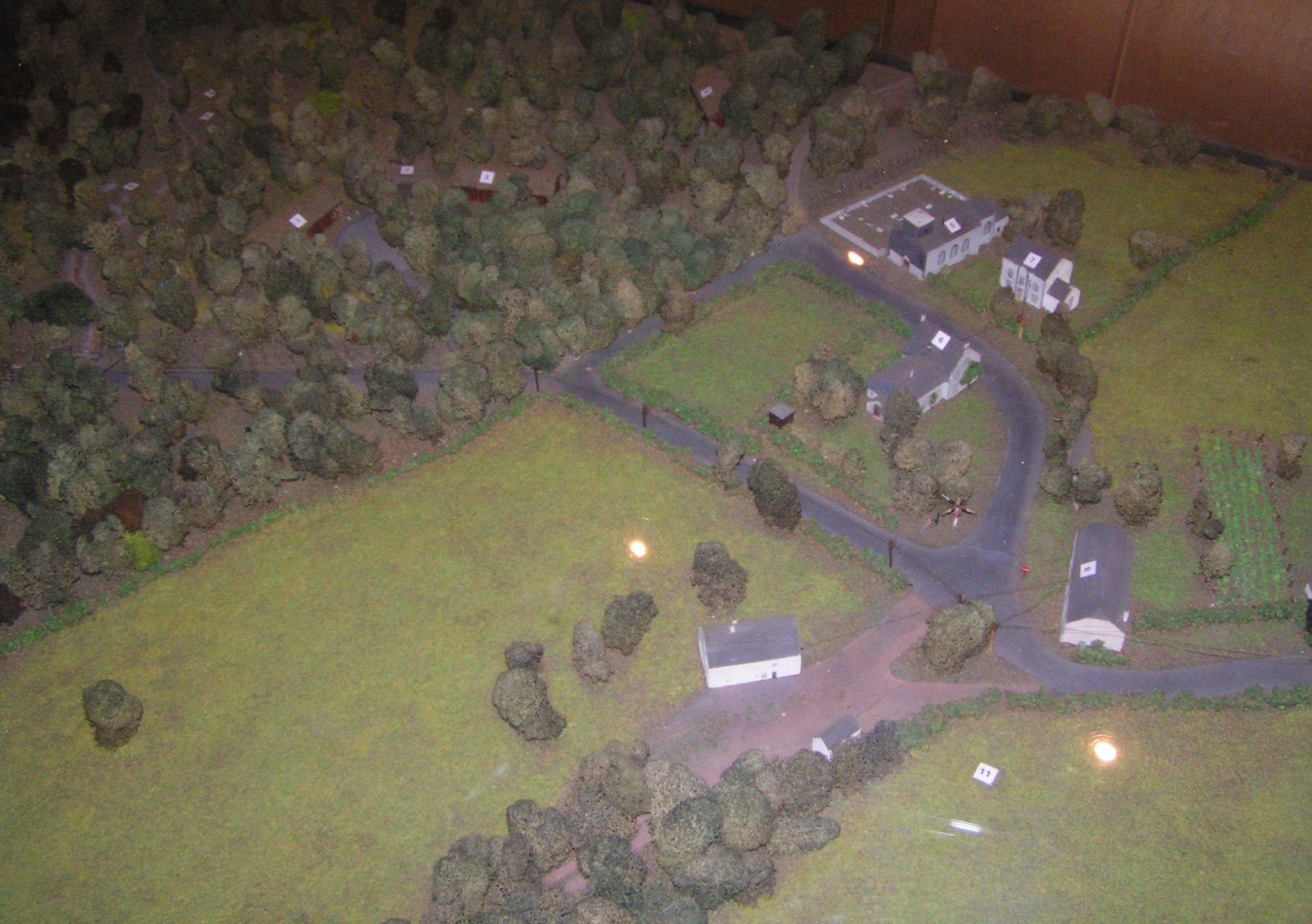 Wolfsschlucht 1, Bunker of Hitler in Ardennes, Brûly-de-Pesche, near Couvin, Belgium